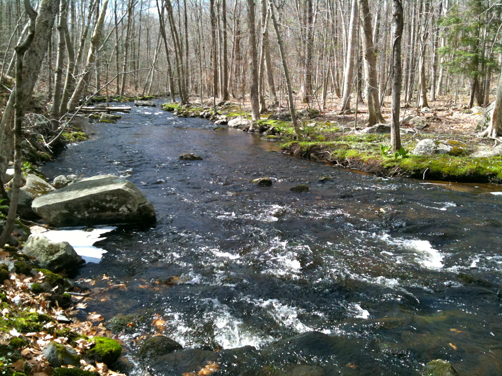 Aspetuck Valley Trail. Blue-Blazed CFPA foot path in Connecticut Centennial Watershed State Forest which connects to Huntington State Park at the northern terminus and which follows the Aspetuck River from Newtown, CT through Redding and Easton, CT. Aspetuck River - Spring stream with rapids along southern Aspetuck Valley Trail after it leaves Poverty Hollow Road road walk (near end of trail). Blue-Blazed CFPA foot path in Connecticut Centennial Watershed State Forest which connects to Huntington State Park at the northern terminus and which follows the Aspetuck River from Newtown, CT through Redding and Easton, CT.